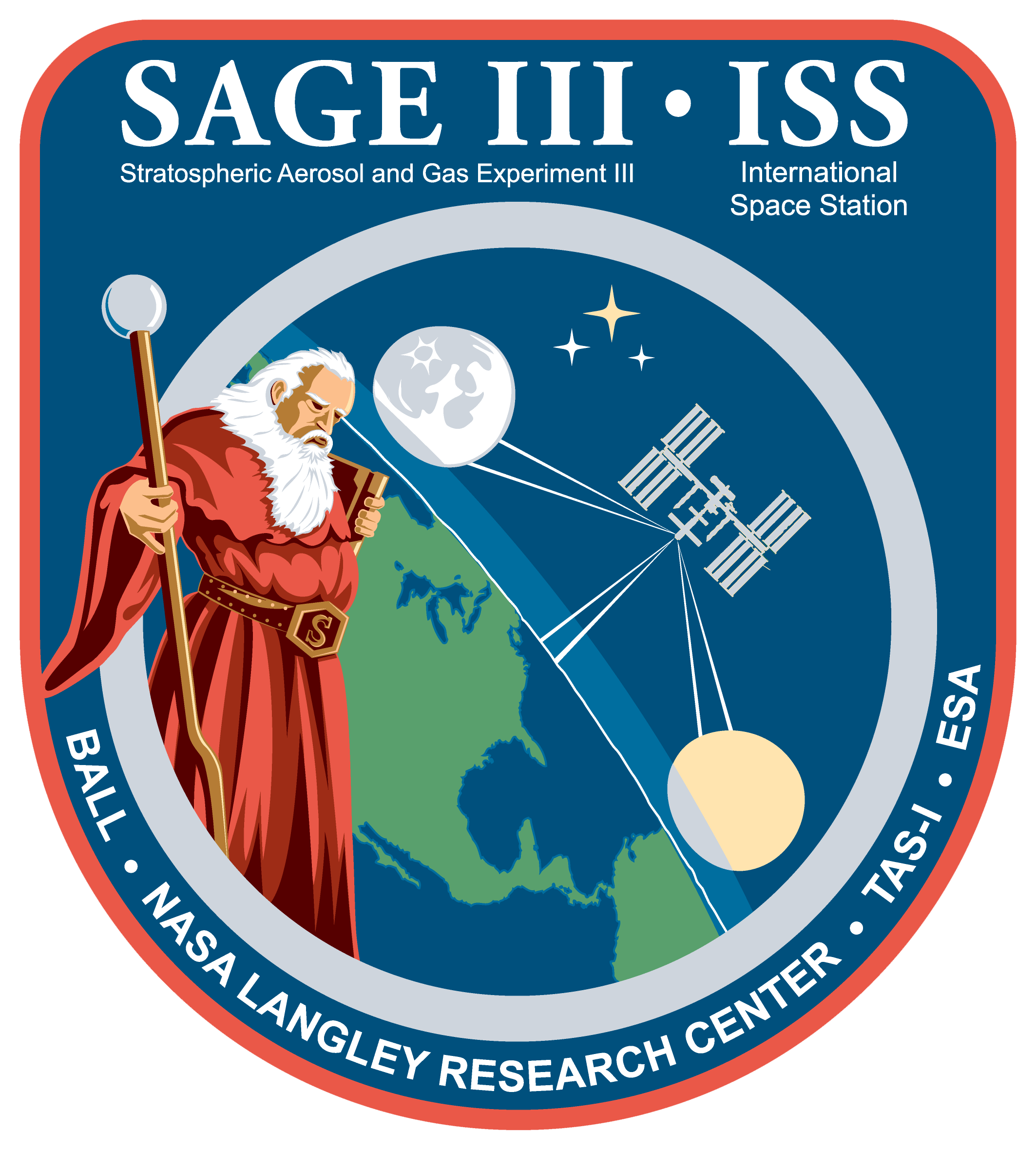 SAGE III on ISS logo The SAGE III instrument is used to study ozone, a gas found in the upper atmosphere that acts as Earth’s sunscreen. More than 25 years ago, scientists realized there was a problem with Earth’s thin, protective coat of ozone…it was thinning. The SAGE family of instruments was pivotal in making accurate measurements of the amount of ozone loss in Earth’s atmosphere. Instead of flying on an un-manned satellite, SAGE III will be mounted to the ISS where it will operate alongside experiments from all over the world in the space-based laboratory.